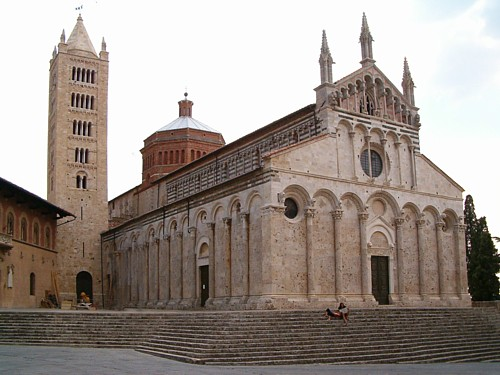 Massa Marittima picture taken by user:Idéfix, july 2003